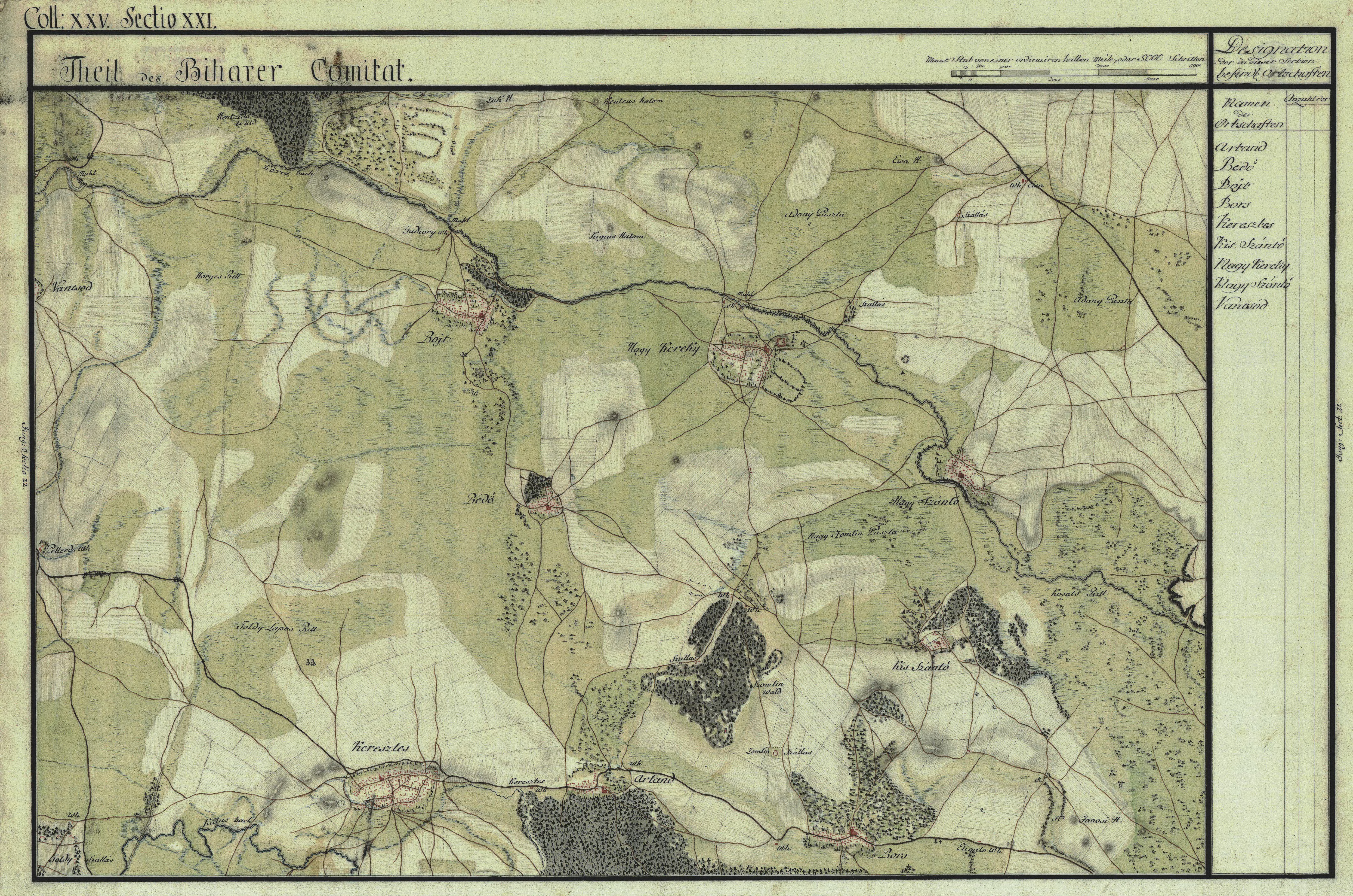 Bihor County, 1782-85. Josephinische Landesaufnahme pg.25-21